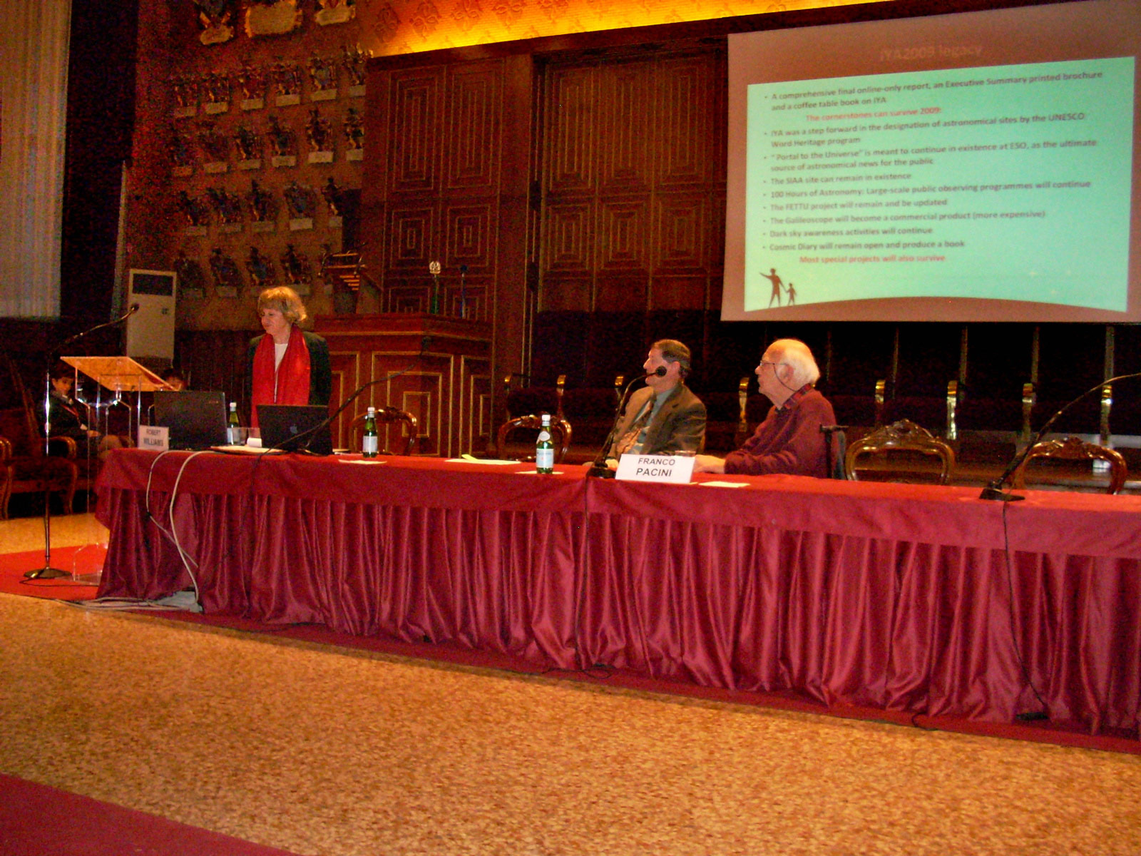 Closing of the International Year of Astronomy in Aula Magna, University of Padua, Italy